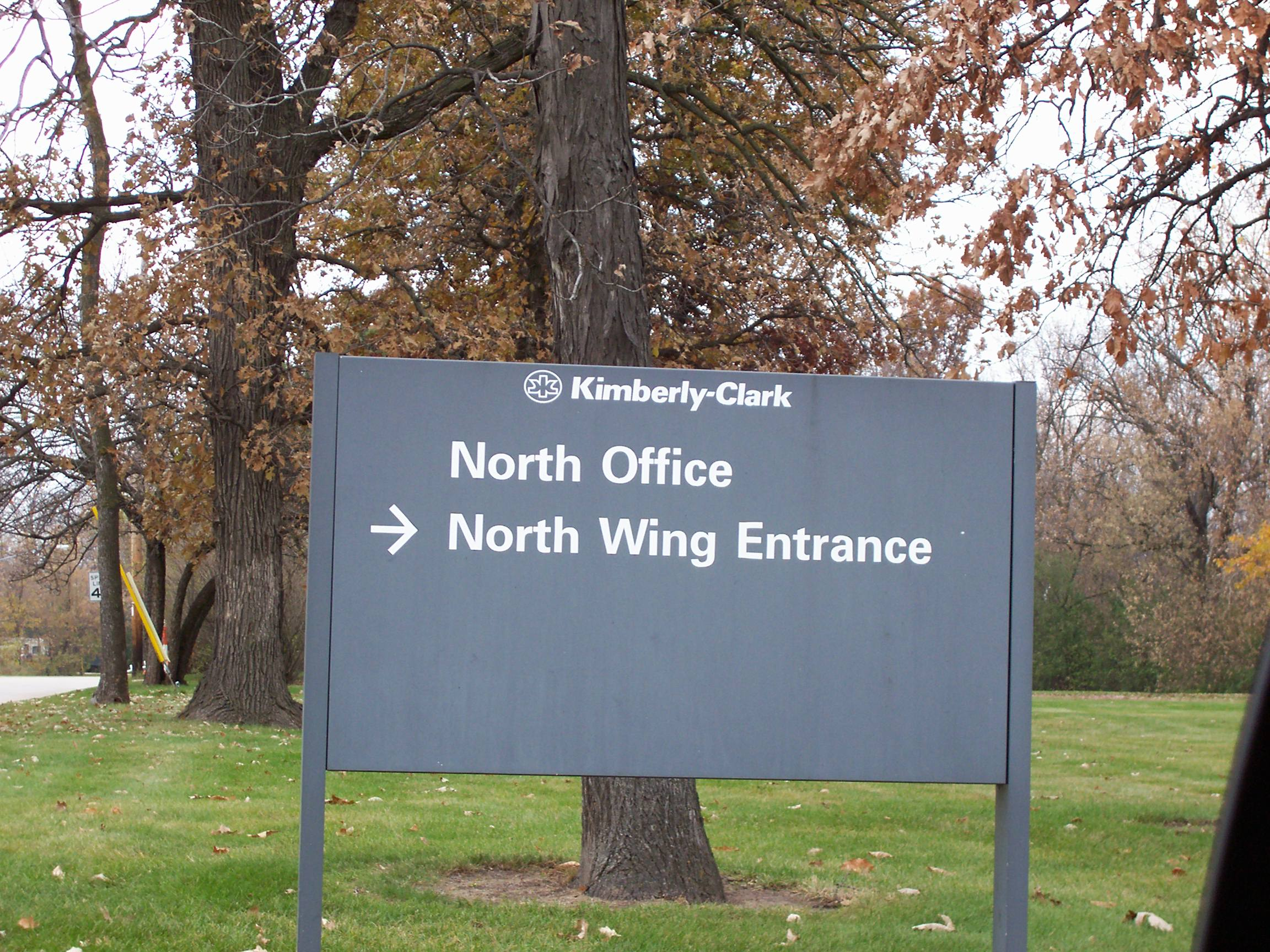 Looking at the sign for a Kimberly-Clark building near Neenah, Wisconsin, USA. Taken October 27 2006 by myself.